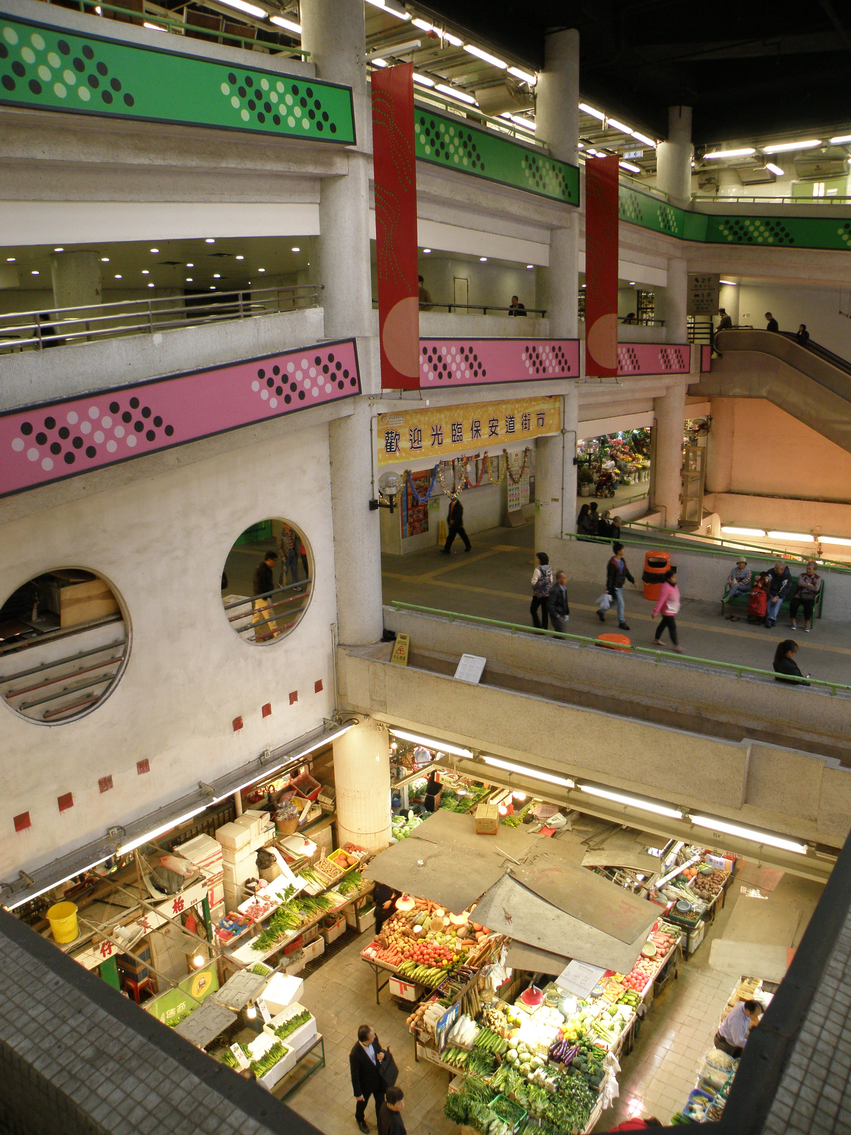 Po On Road Municipal Services Building in Cheung Sha Wan, Hong Kong.